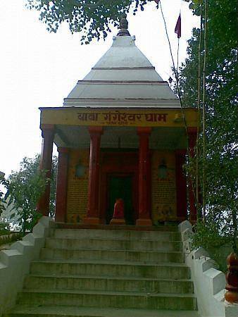 Almost 150 years ago With help from Kashi Naresh the Temple made by shiv Lal Singh